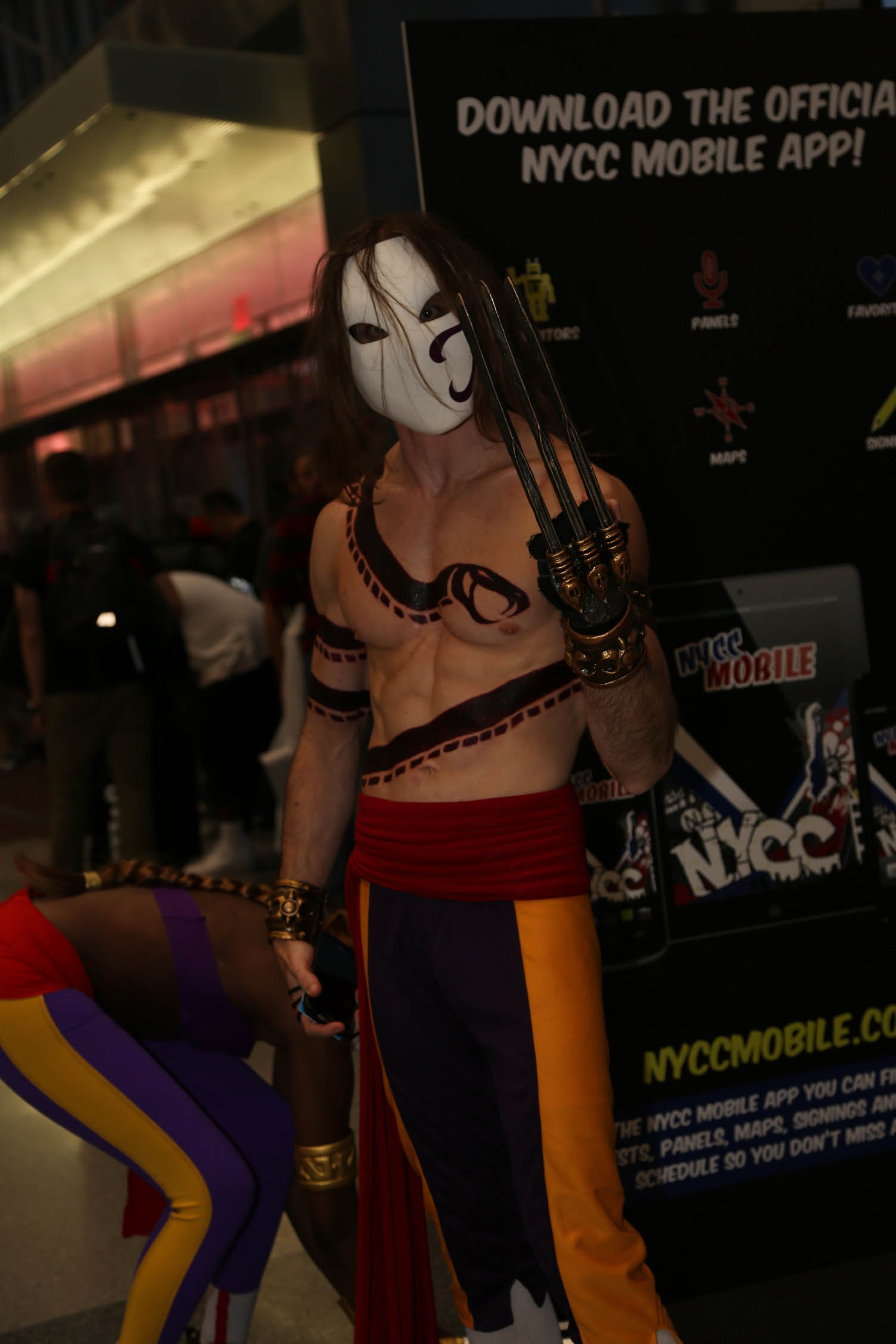 Cosplay at the 2014 New York Comic Con.